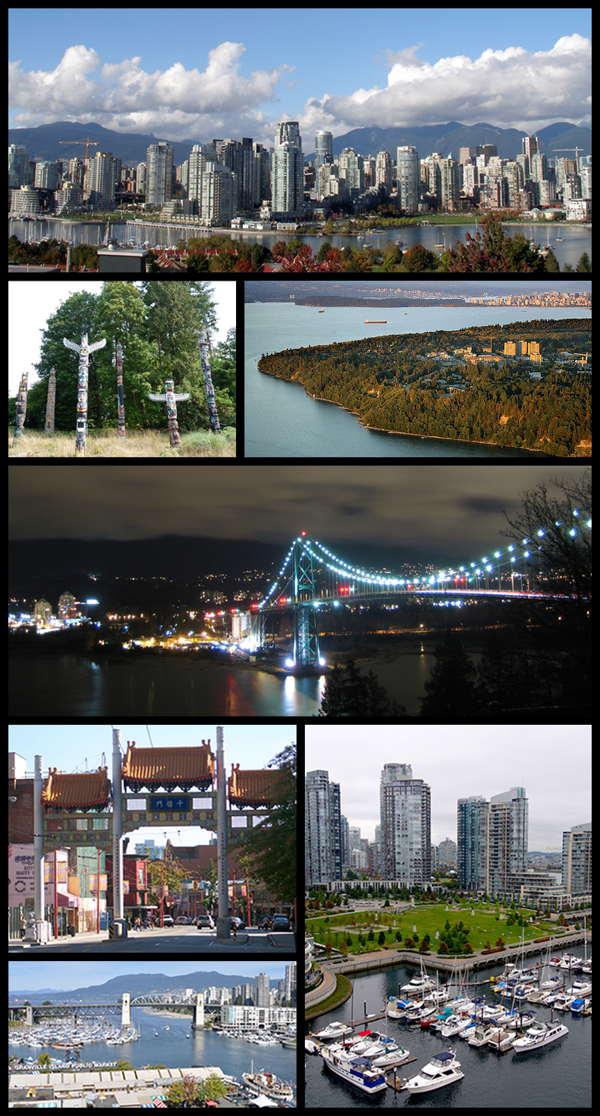 From top left, Downtown Vancouver from the southern shore of False Creek, totem poles in Stanley Park, University of British Columbia campus, Lions Gate Bridge, Millenium Gate in Chinatown, boats on the harbour, and Granville Island, in Vancouver.